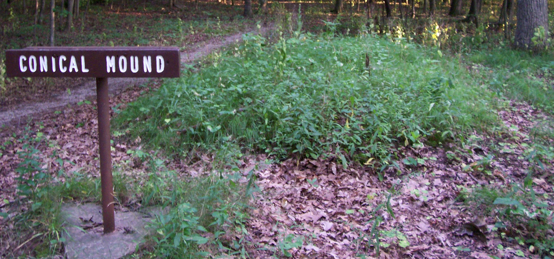 Conical effigy mounds at High Cliff State Park in Sherwood, Wisconsin, USA.